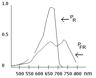 The absorbtion spectra of the two phytochrome forms